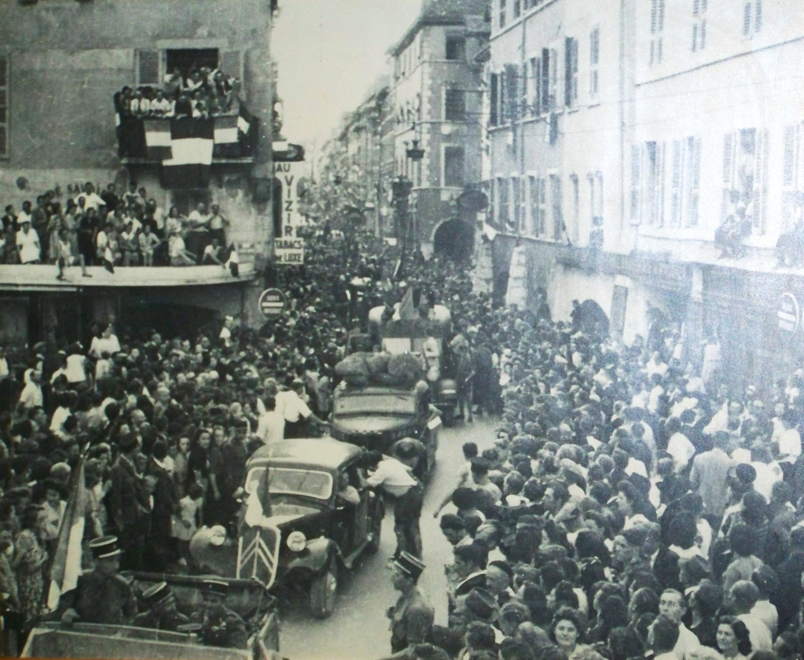 Picture of photo taken during the liberation of the city of Annecy in Haute-Savoie on August, 19th 1944.